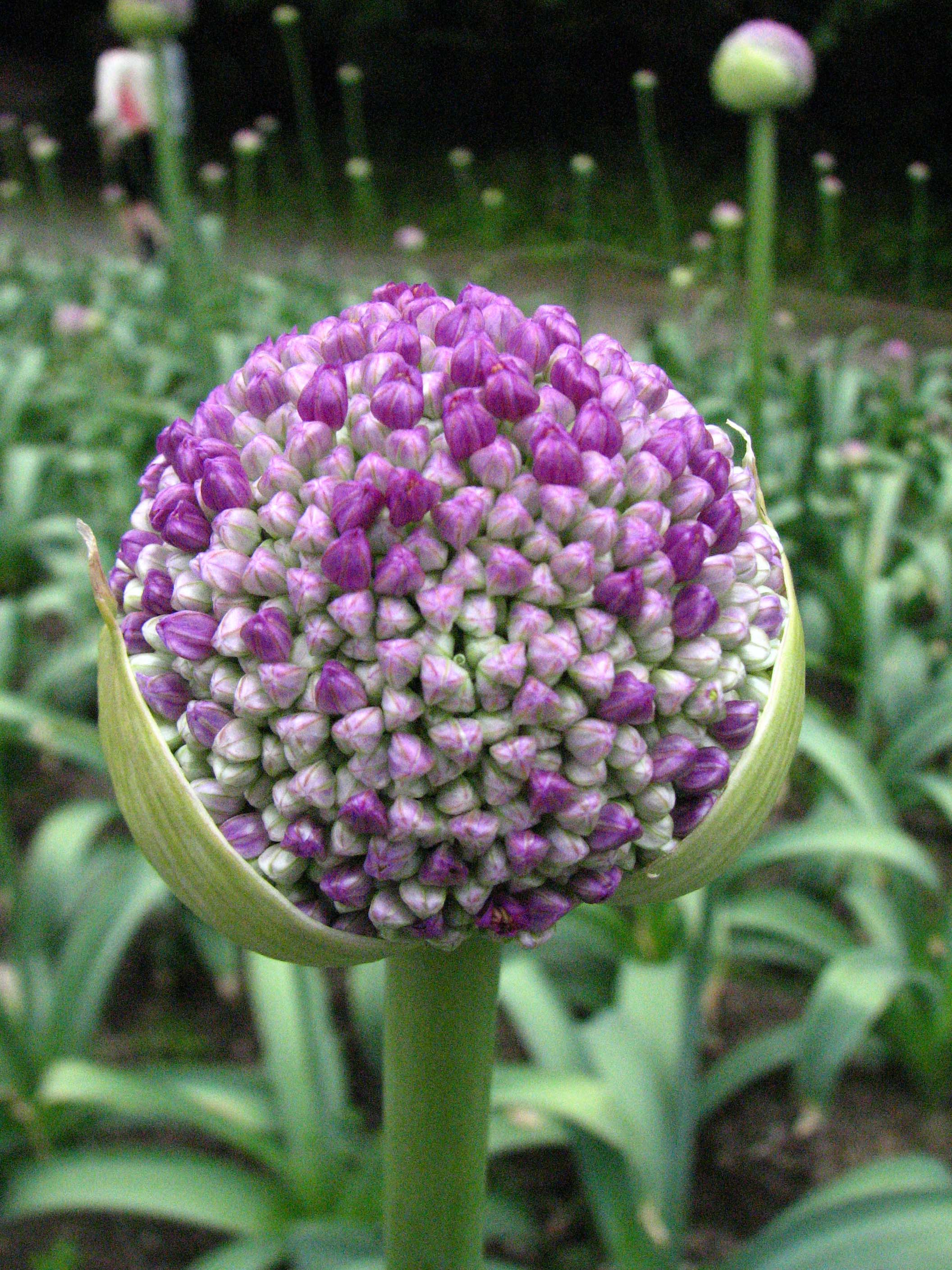 Allium giganteum In a few weeks, this will be a big purple puffball....